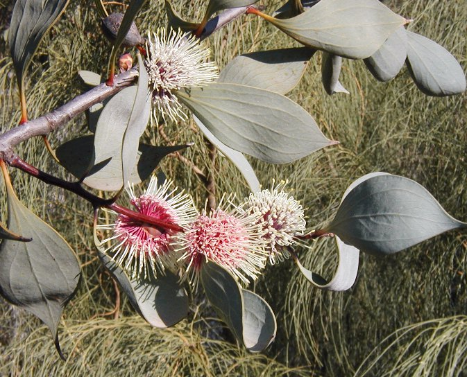 Hakea petiolaris cult. Keilor Botanic gardens - northeast Melbourne